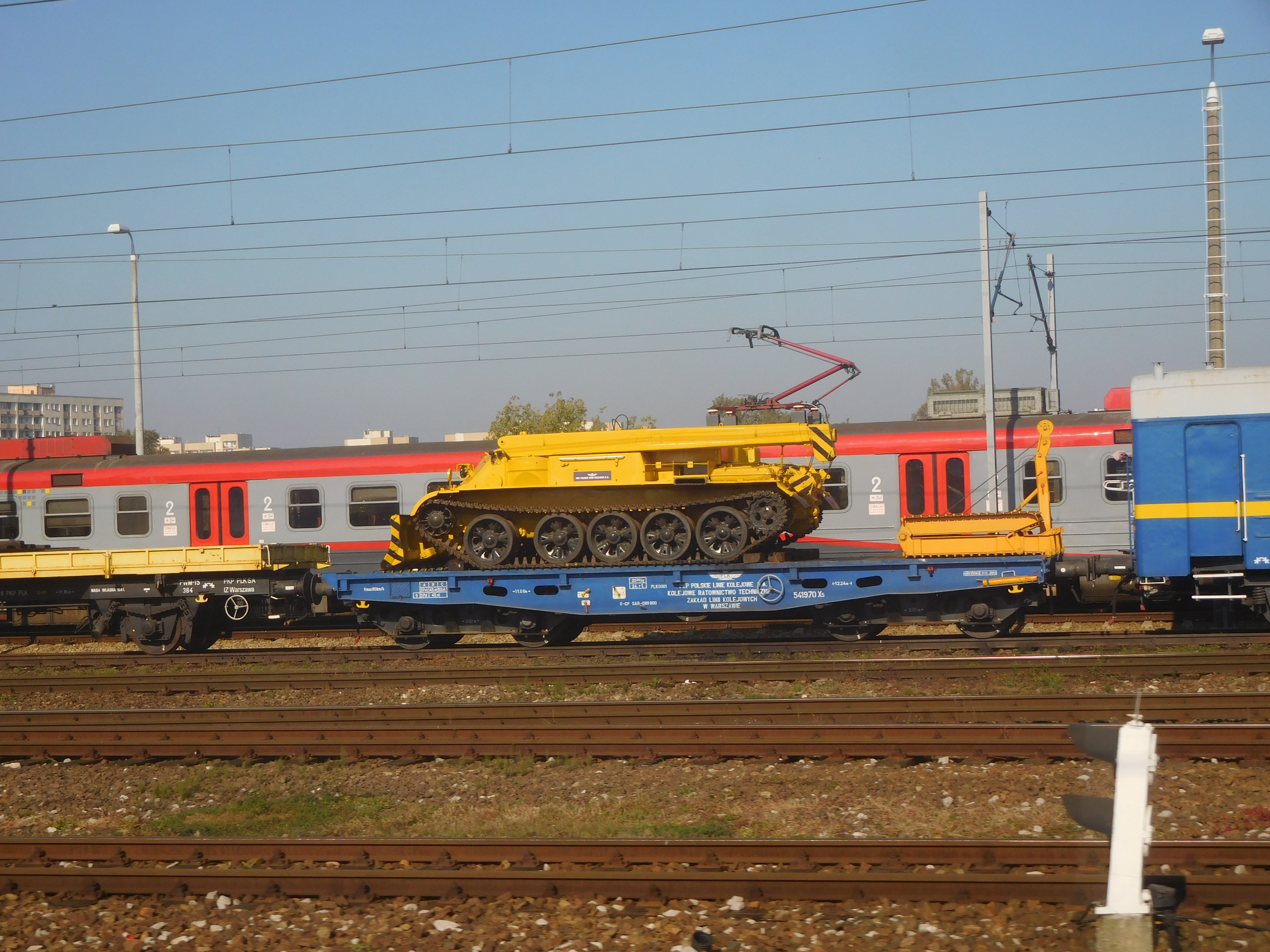 WZT-2 used as Special rescue vehicle parked near Warszawa Wschodnia railway station